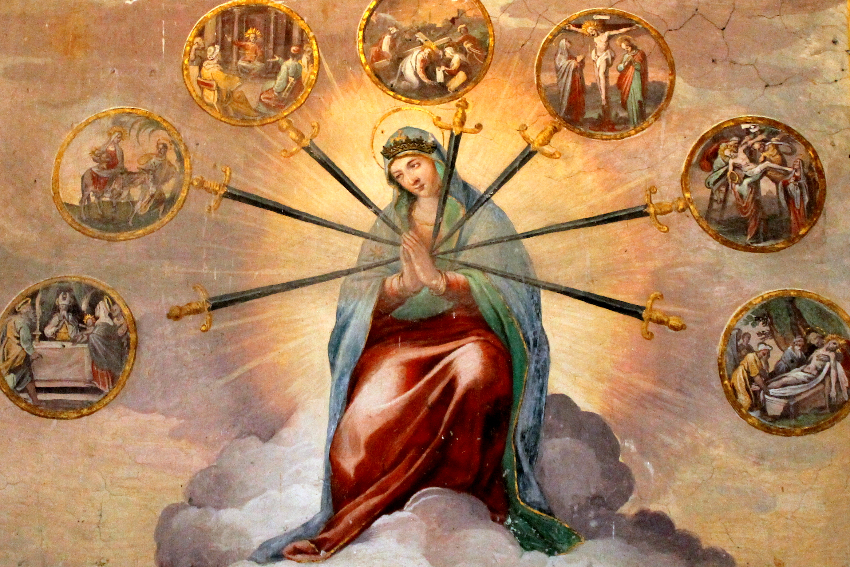 Fresco of the Seven Sorrows of the Blessed Virgin, by Tempesta and Circignani, Santo Stefano Rotondo, Rome.